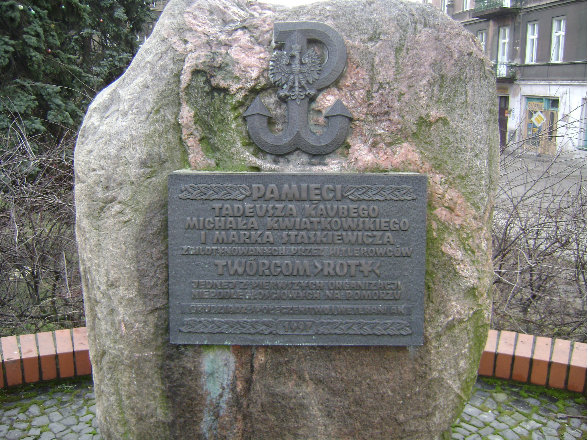 Plaque of beginners of resistance organisation "Rota Grudziądzka"